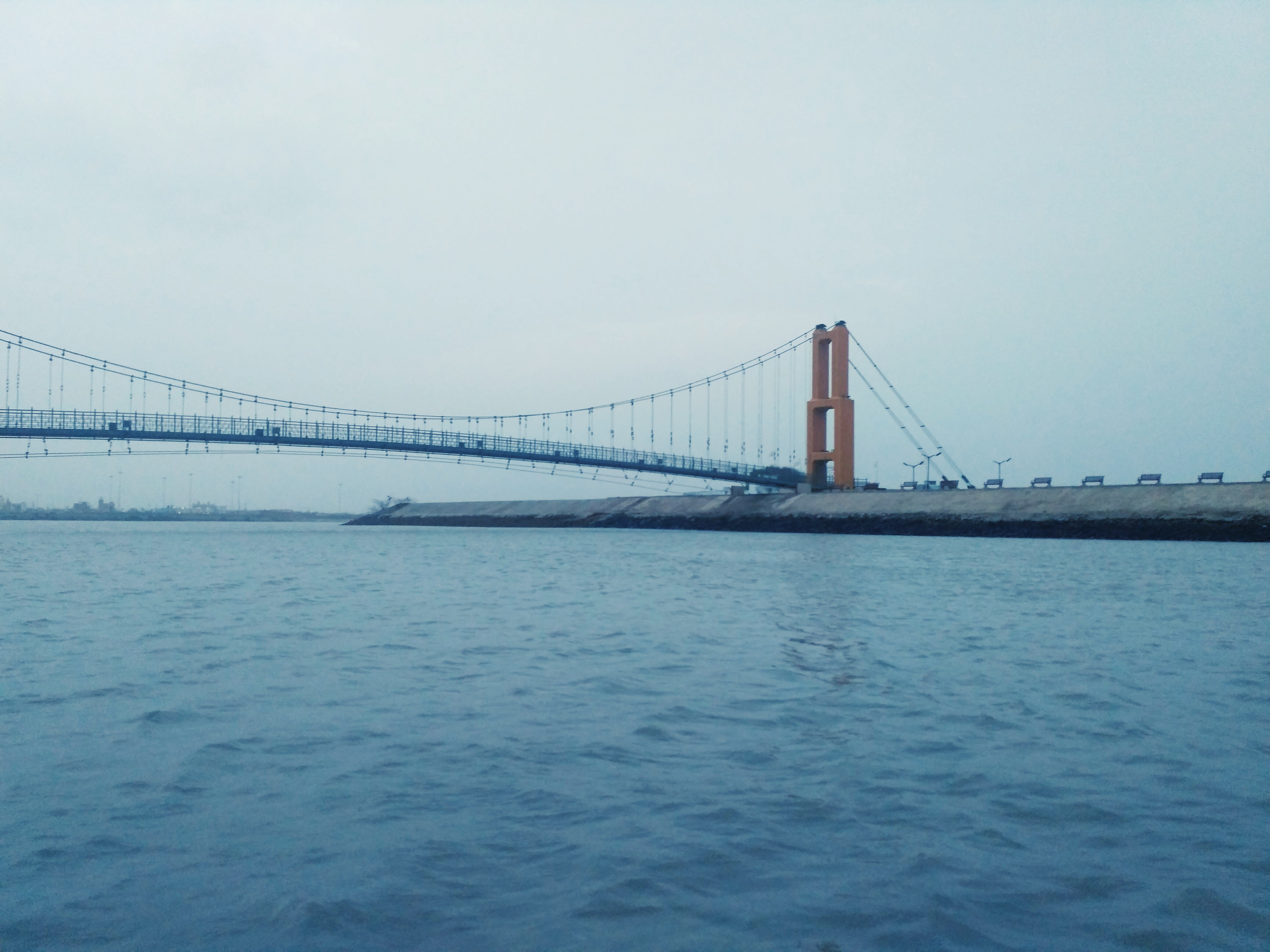 sudhama setu , at dwaraka, Gujarat